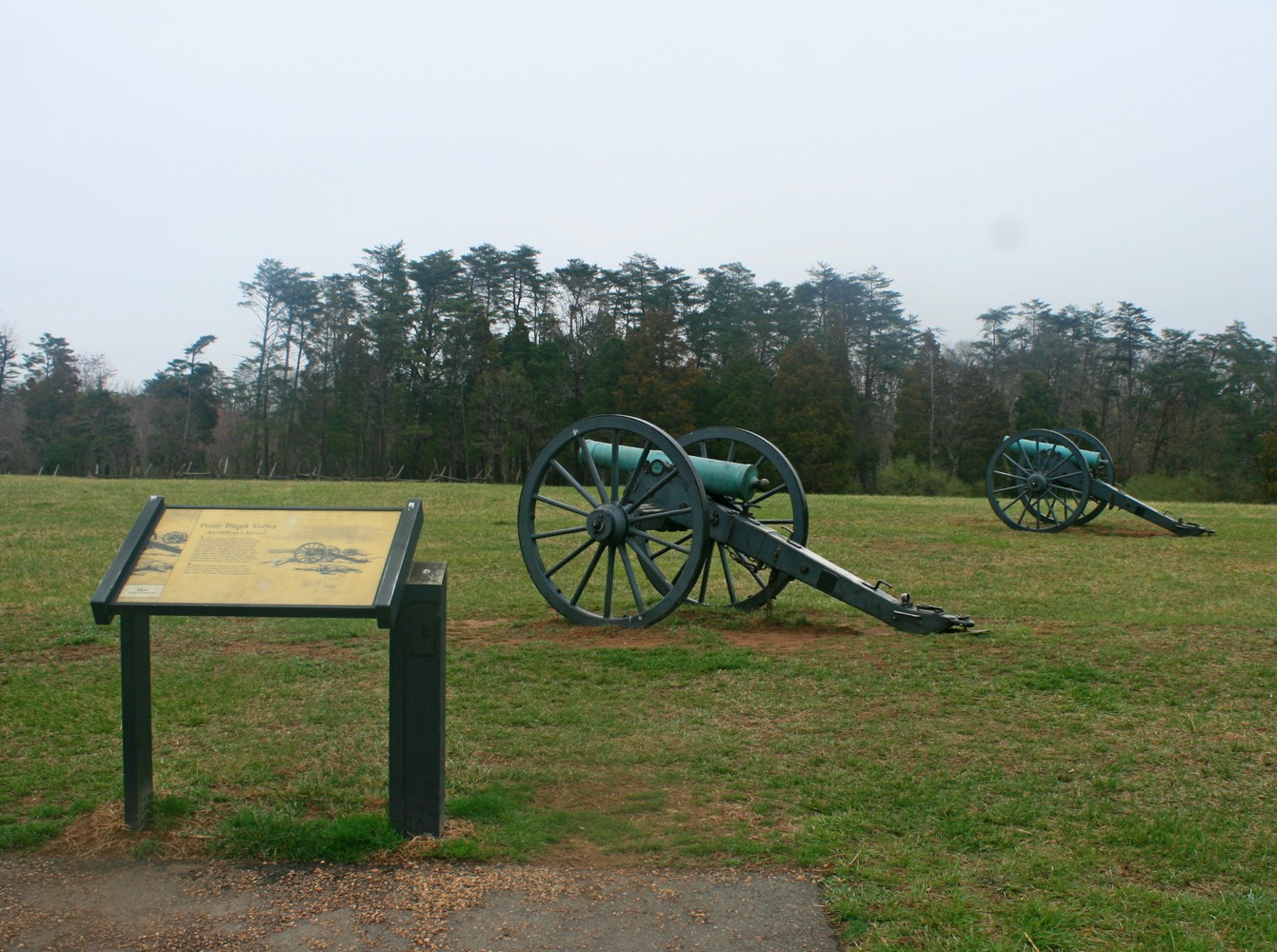 2 Griffin's 12-pouder howitzers on Henry Hill